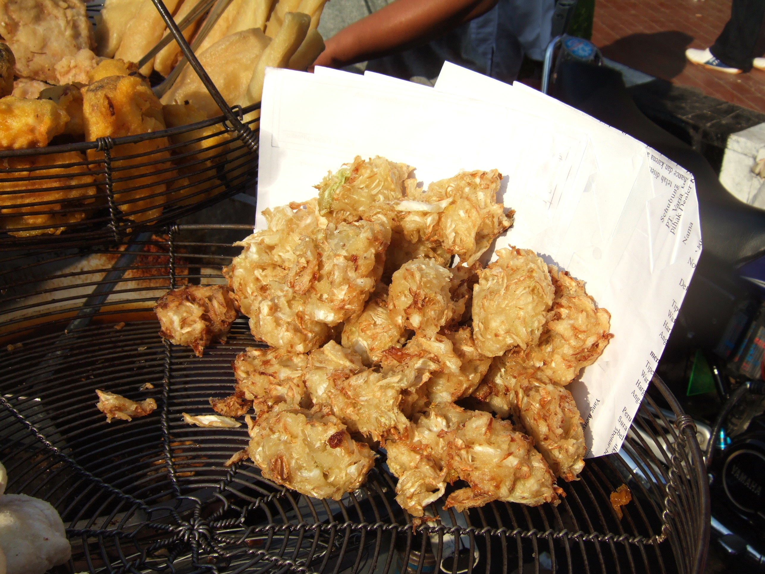 Cabbage fritters, Jakarta